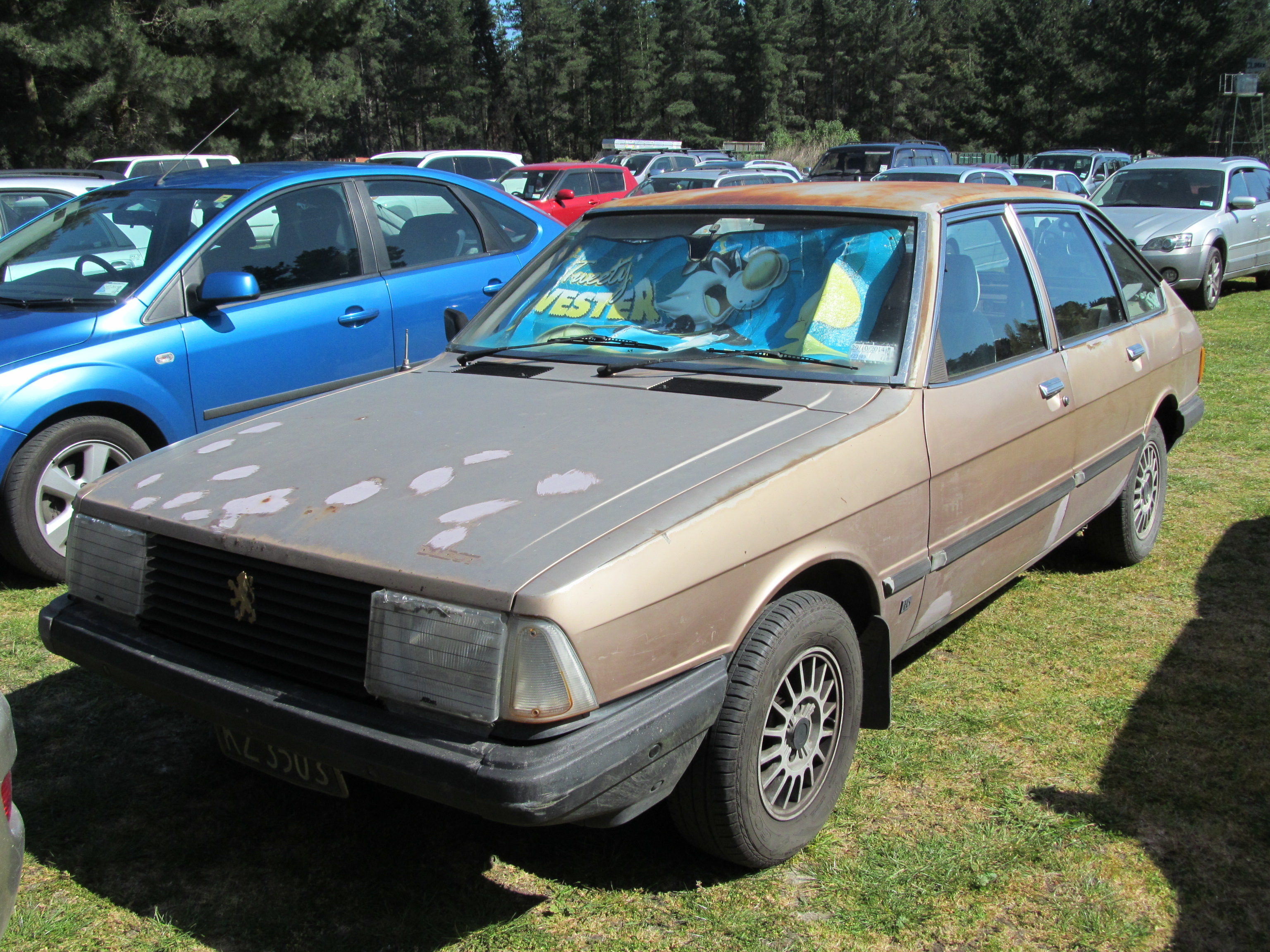 A better picture of one of the few road-going Alpines from the insane Alpine hoarder seen in 2012, seen here at the Canterbury swap meet a few years back. The sun has not been kind to this late SX badged Alpine.